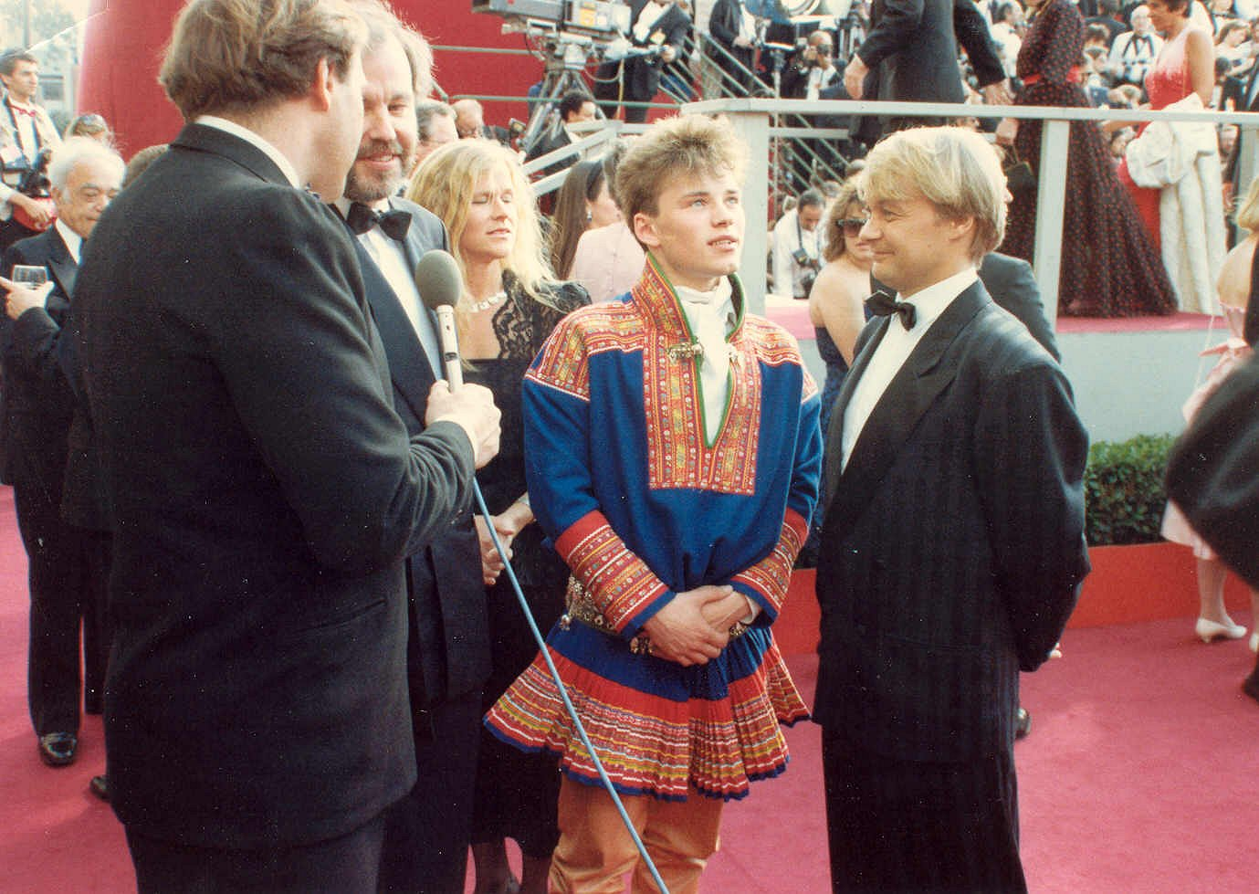 Mikkel Gaup (in traditional Laplanders Gákti costume) and Nils Gaup (right) on the red carpet at the 60th Annual Academy Awards, 4/11/88 - nominated for best foreign film Pathfinder. Permission granted to copy, publish, broadcast or post but please credit "photo by Alan Light" if you can